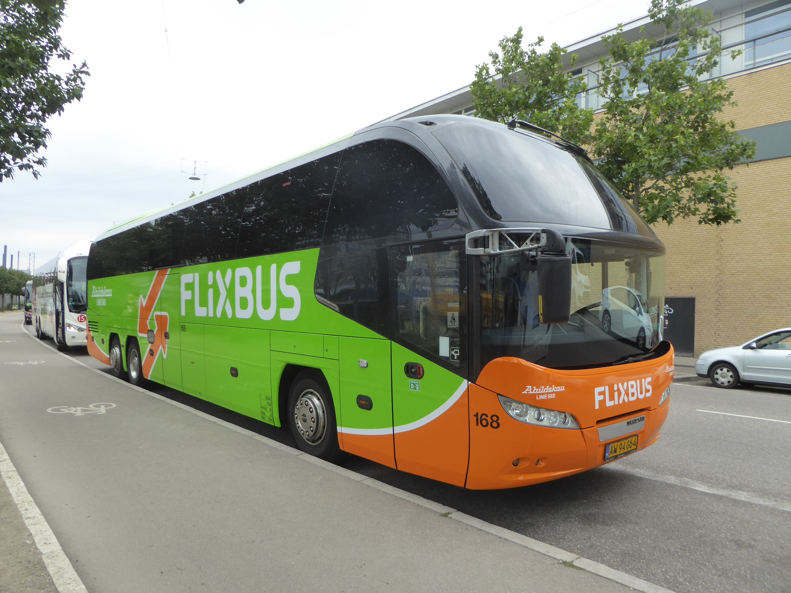 Coach of FlixBus and Abildskou on Ingerslevsgade in Vesterbro in Copenhagen.